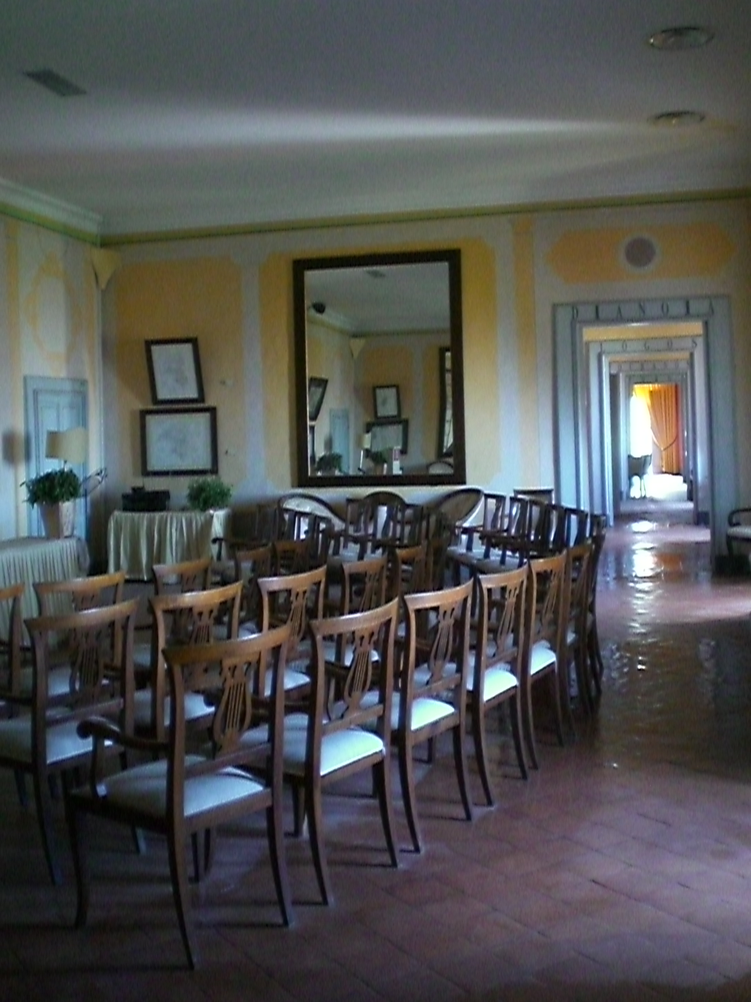 Museum Vichiano in Vatolla near Perdifumo